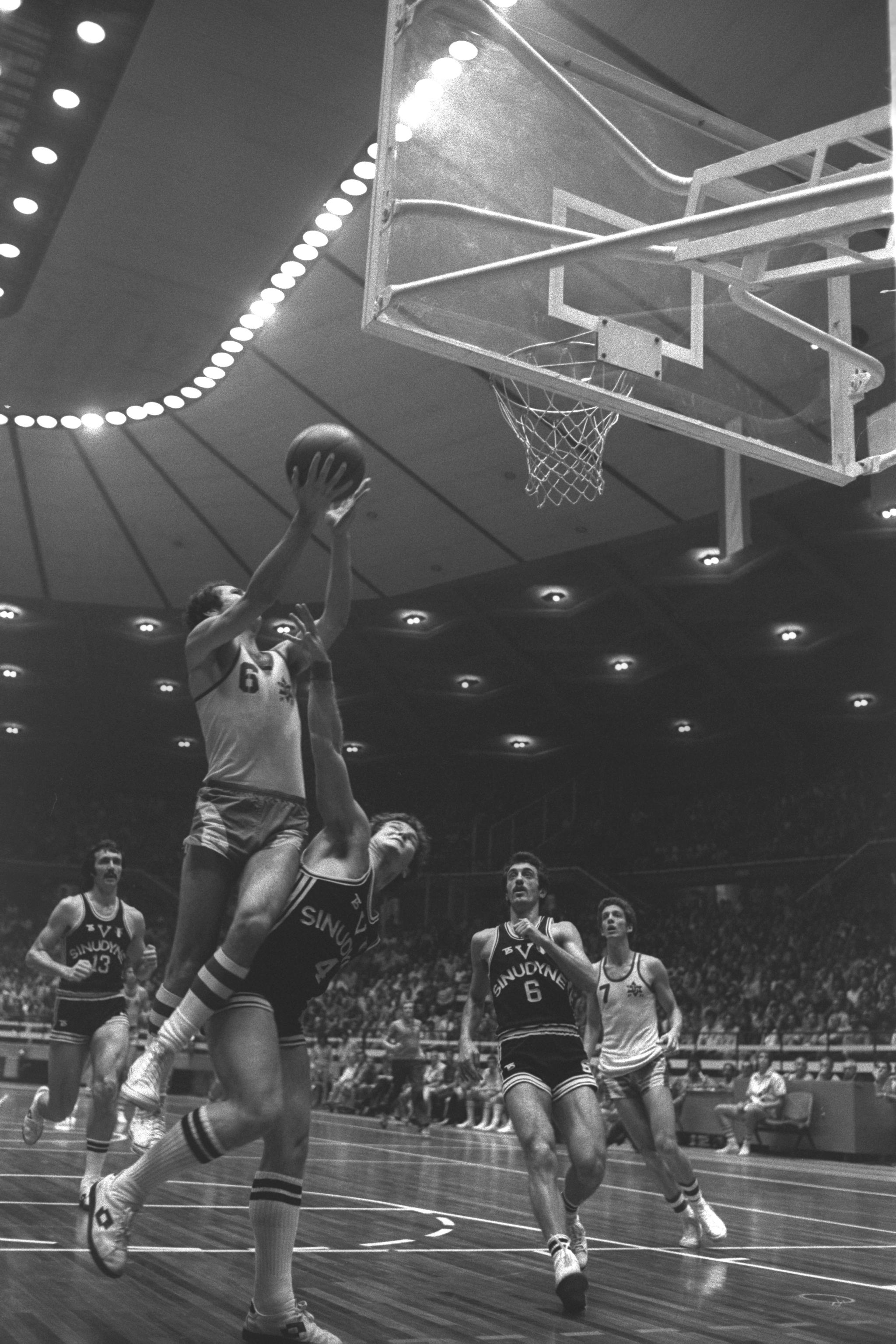 Tal Brody drive to the hoop for a layup during the Maccabi Tel Aviv game against Italian team Bologna, held at Tel Aviv's Yad Eliyahu Stadium. טל ברודי עומד לקלוע שתי נקודות במשחקה של מכבי תל אביב כנגד בולוניה, באיצטדיון יד אליהו בתל אביב Photo: Yaakov Saar (1951–) Alternative names SA'AR YA'ACOV; Jacob Saar; Saʻar, YaʻaḳovDescriptionIsraeli photographerDate of birth 1951 Authority control : Q28751896 VIAF: 298161188 NLI: 001394176 creator QS:P170,Q28751896 , 10/28/1976